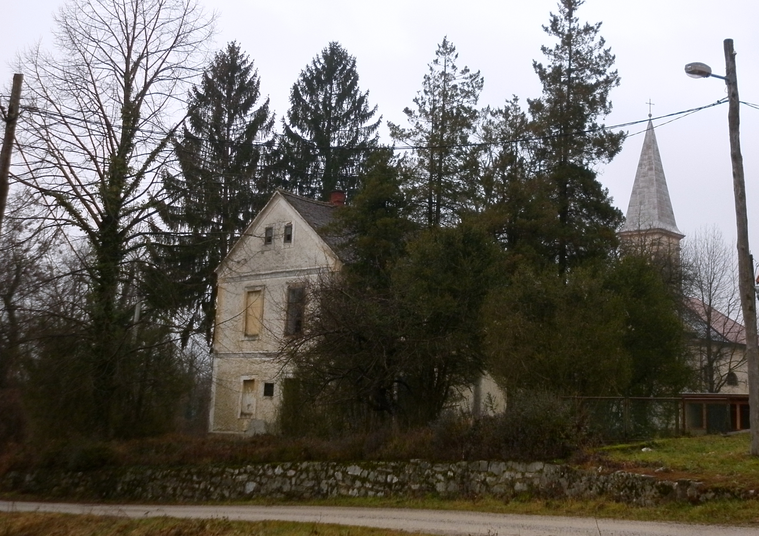 Kunići Ribnički, općina Netretić, Karlovačka županija. Mjesto između rijeke Kupe i gore Lipnik